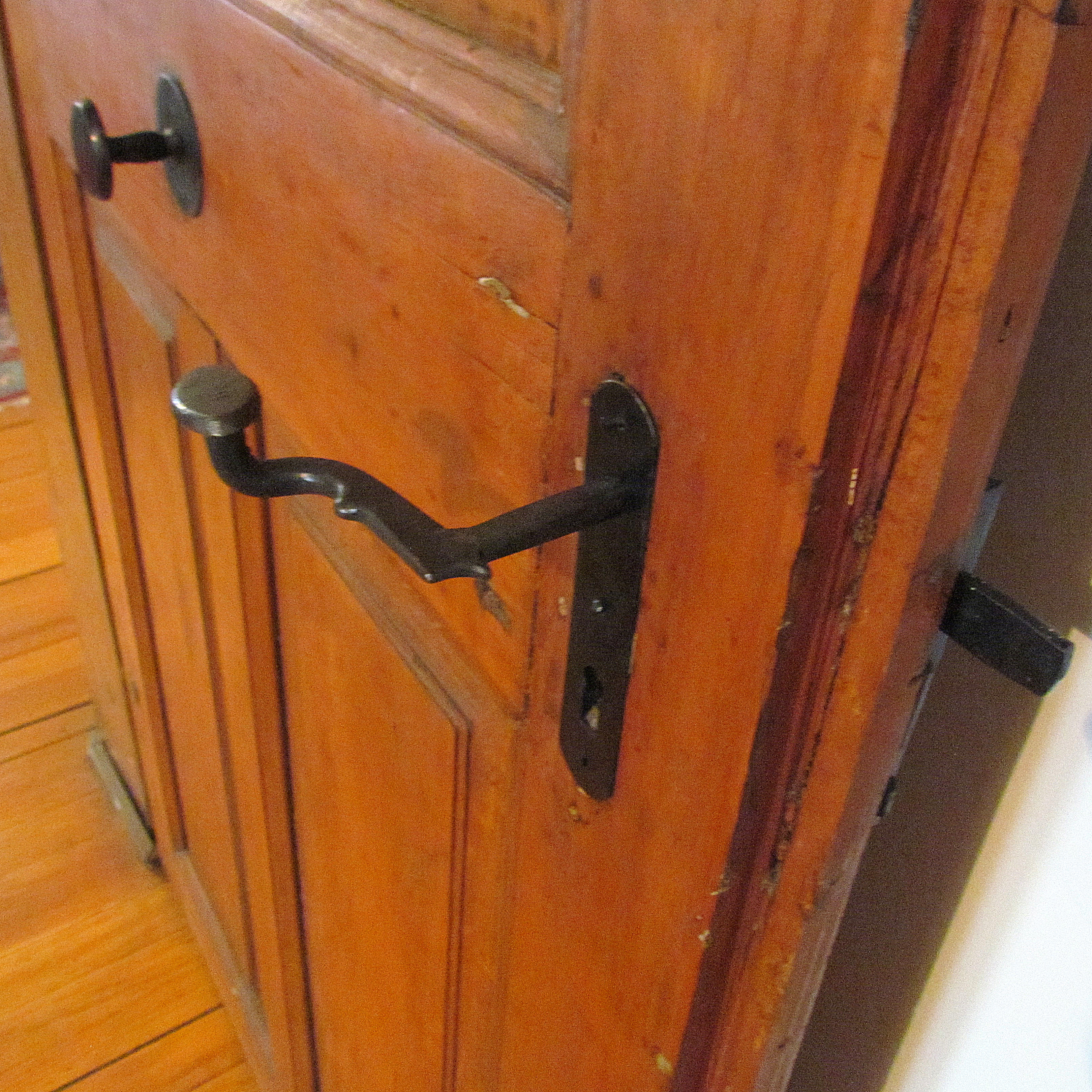 Door handle, Princess Ljubica's Residence